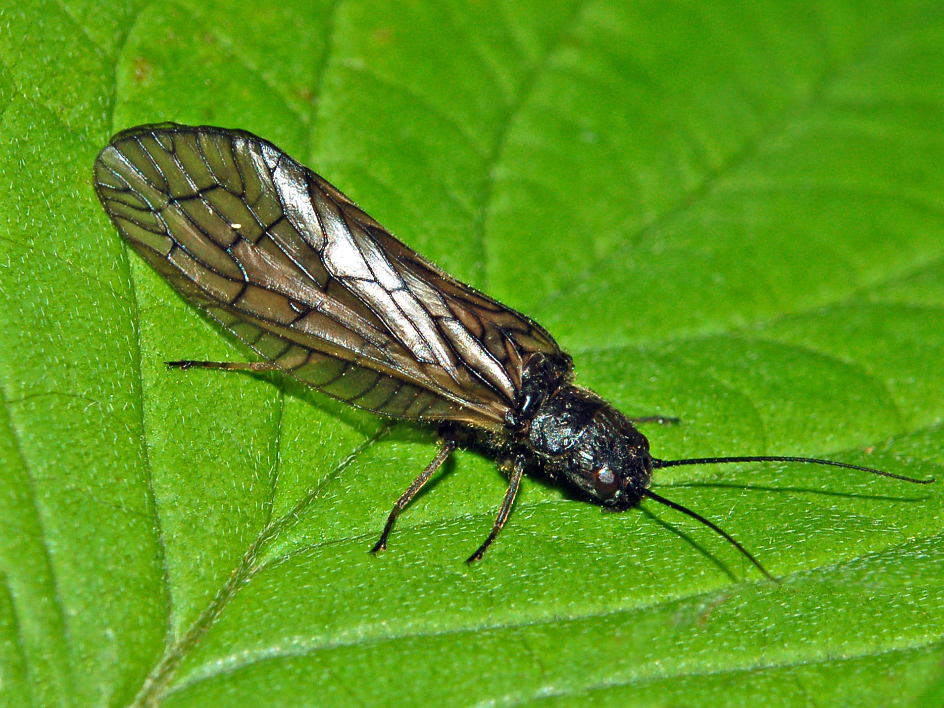 Sialis lutaria. Alessandria, Italy